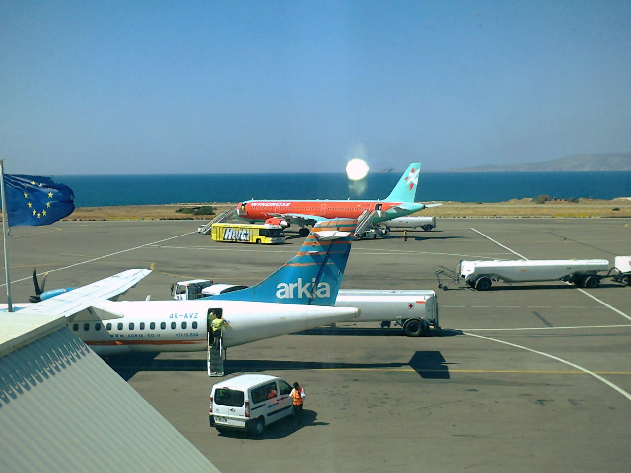 Apron at Heraklion Airport